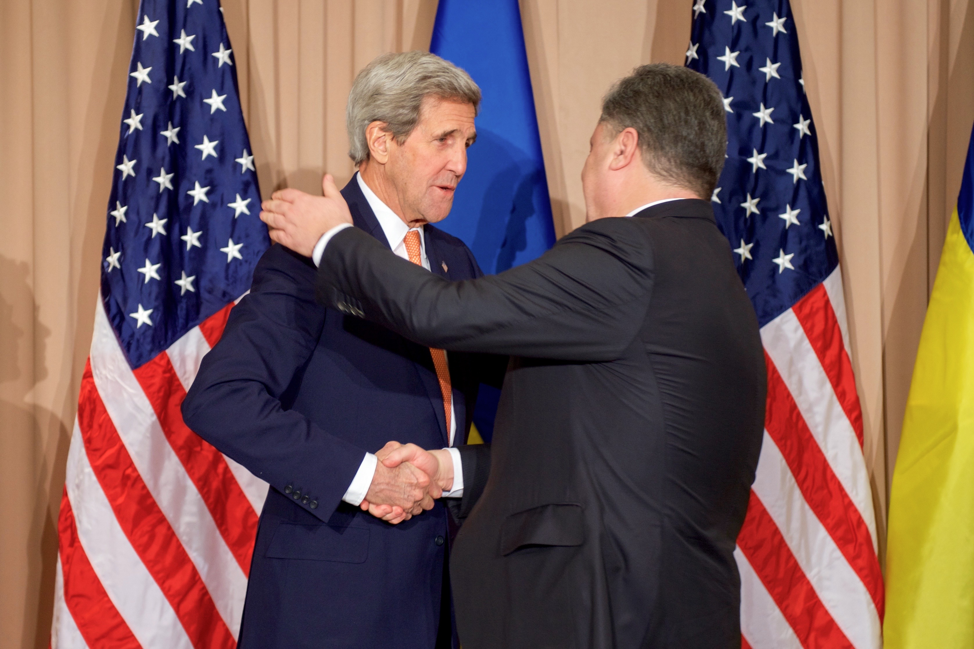 U.S. Secretary of State John Kerry shakes hands with Ukrainian President Petro Poroshenko on January 20, 2016, at the Intercontinental Hotel in Davos, Switzerland, before he held a bilateral meeting with Vice President Joe Biden on the sidelines of the World Economic Forum. [State Department photo/ Public Domain]